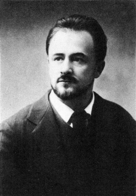 Russian actor Sulergitski L. A.